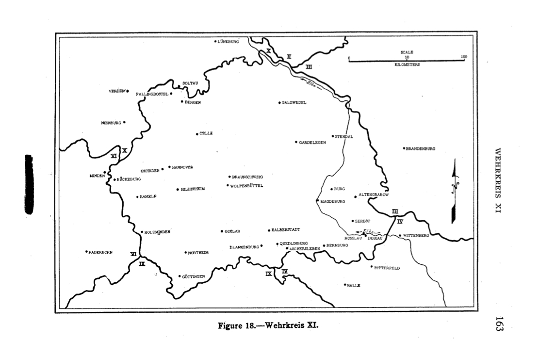 Map of the Wehrkreis, Military District, XI.